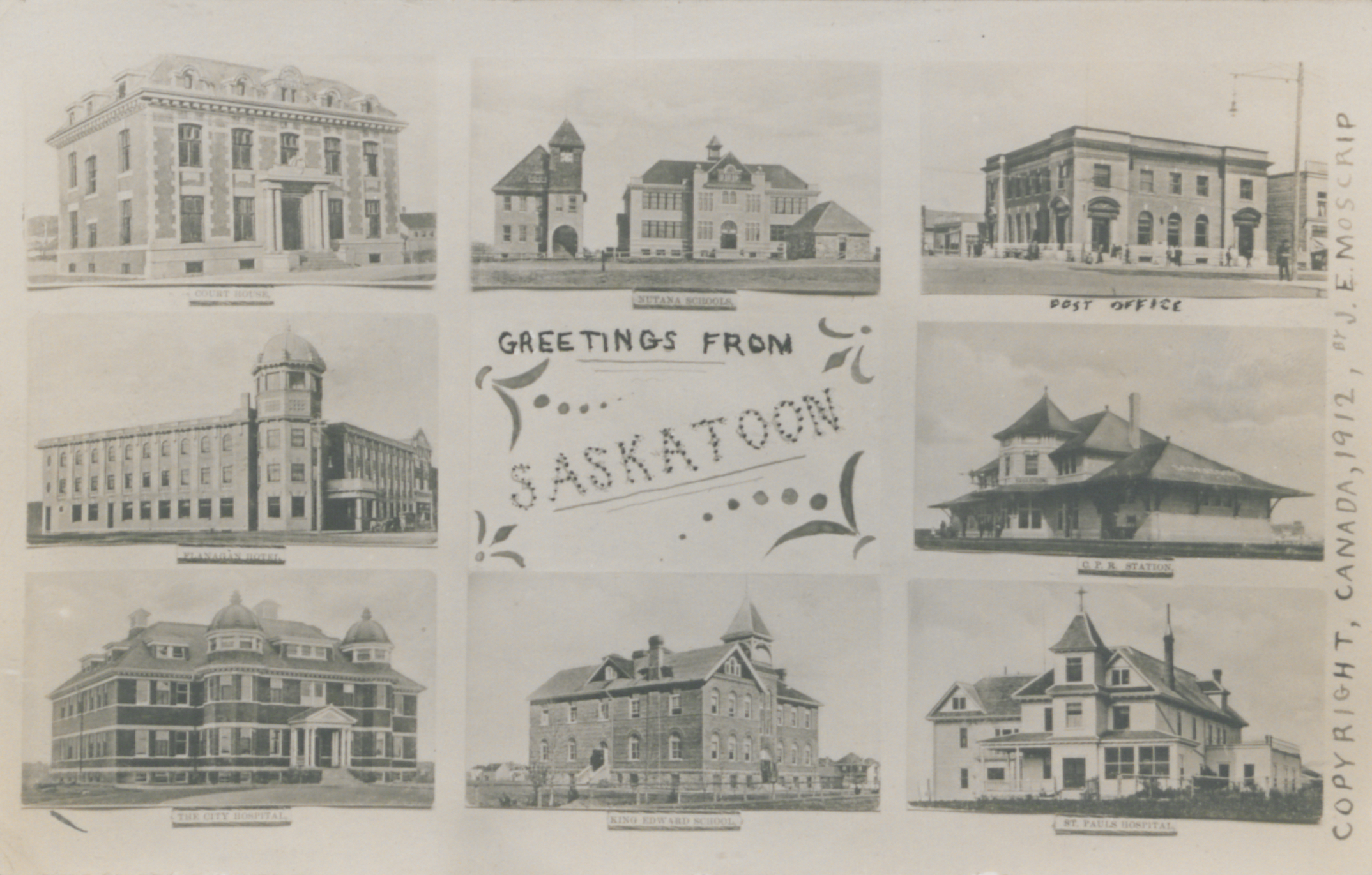 Original caption: “Greetings from Saskatoon.”